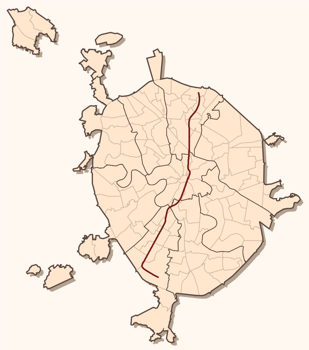 Map of Kaluzhsko-Rizhskaya line of Moscow Metro on Moscow map